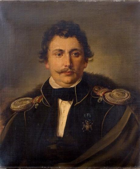 Portrait of Józef Patelski